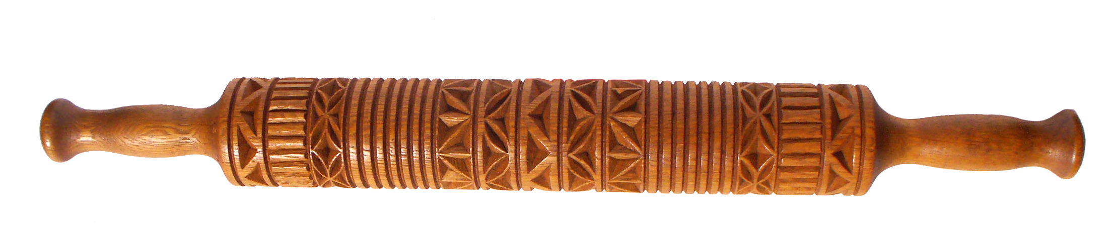 Gata stamp